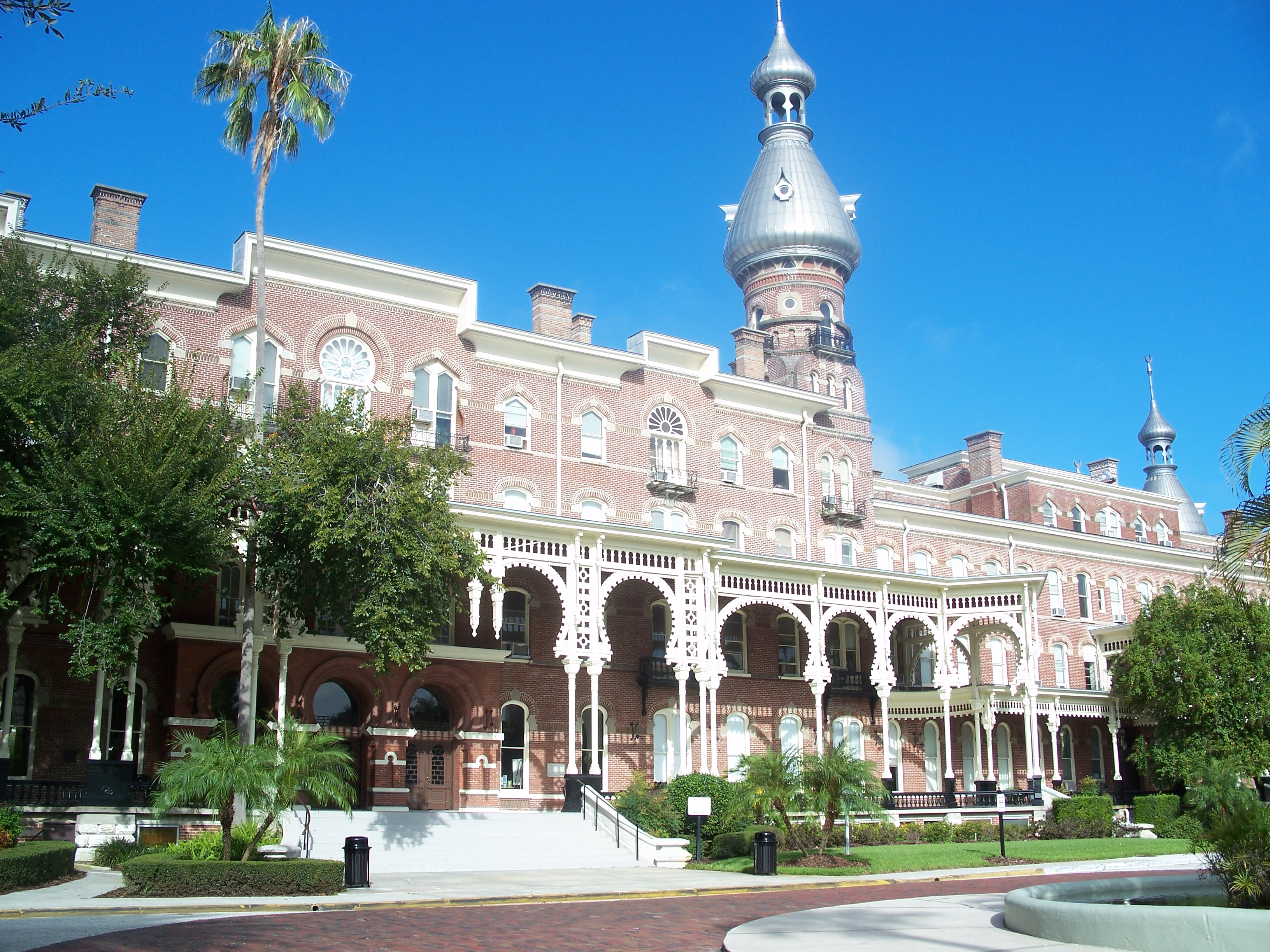 Old Tampa Bay Hotel, a National Historic Landmark, now part of the University of Tampa, in Tampa, Florida